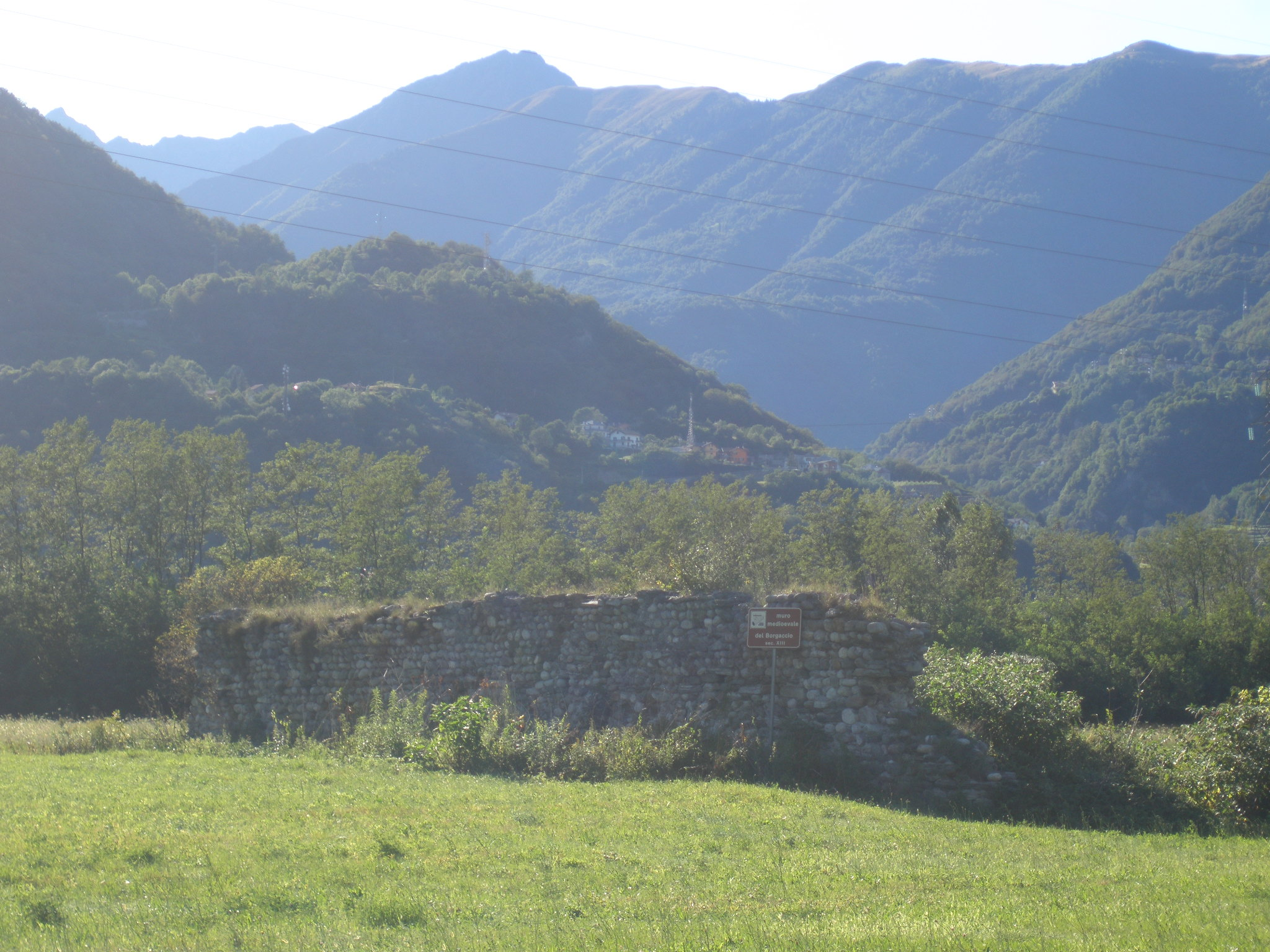 The Borgaccio Roman Wall, ruin of the river harbour in Pieve vergonte